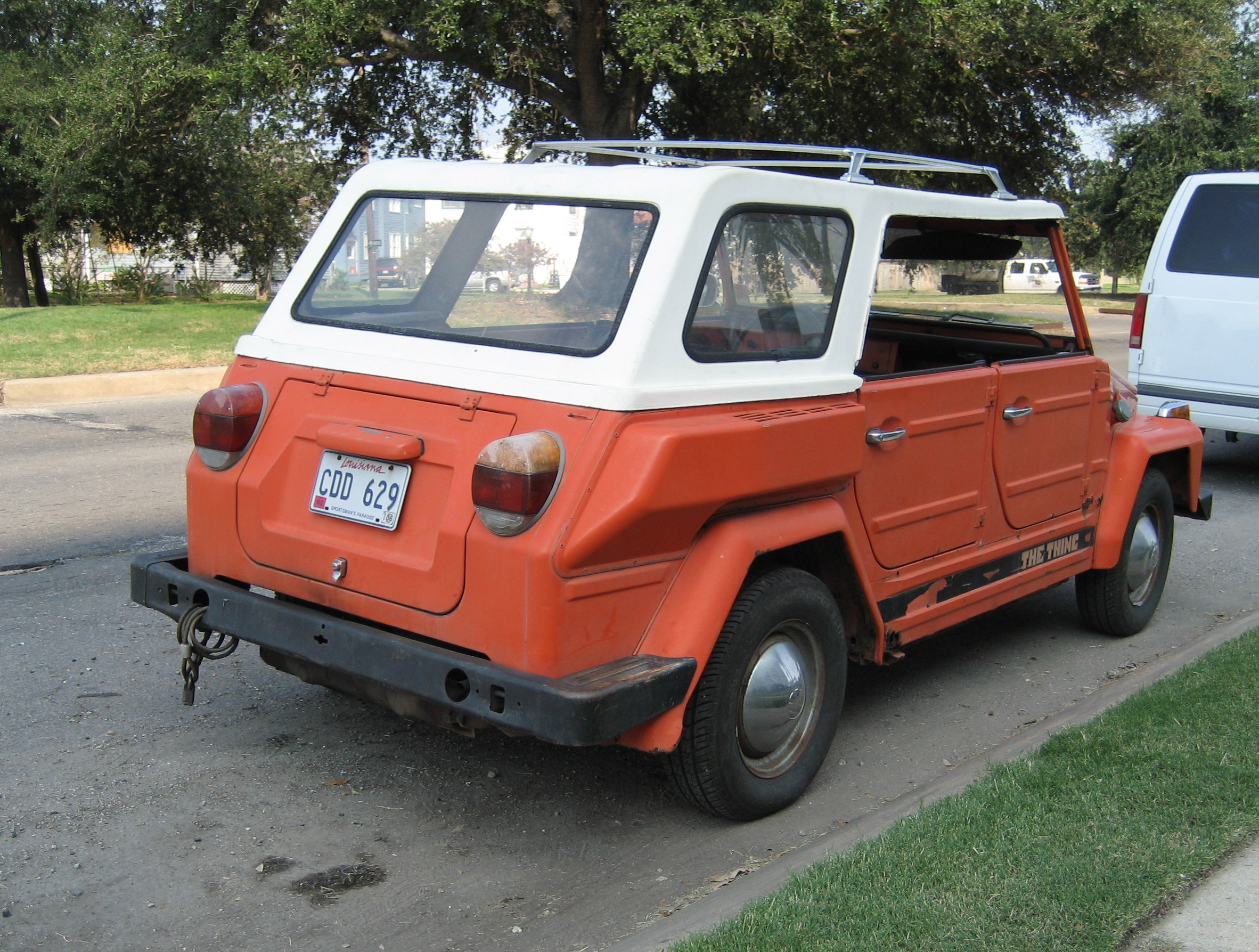 Volkswagen „Thing“ in Mid City New Orleans